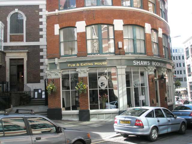 Not a Booksellers. It was my privilege at the week-end to meet up with fellow Wikipedians for a natter over Sunday lunch. My friends from Germany and Taiwan said that they will never work out the English as long as they live. Why call a pub after another profession?